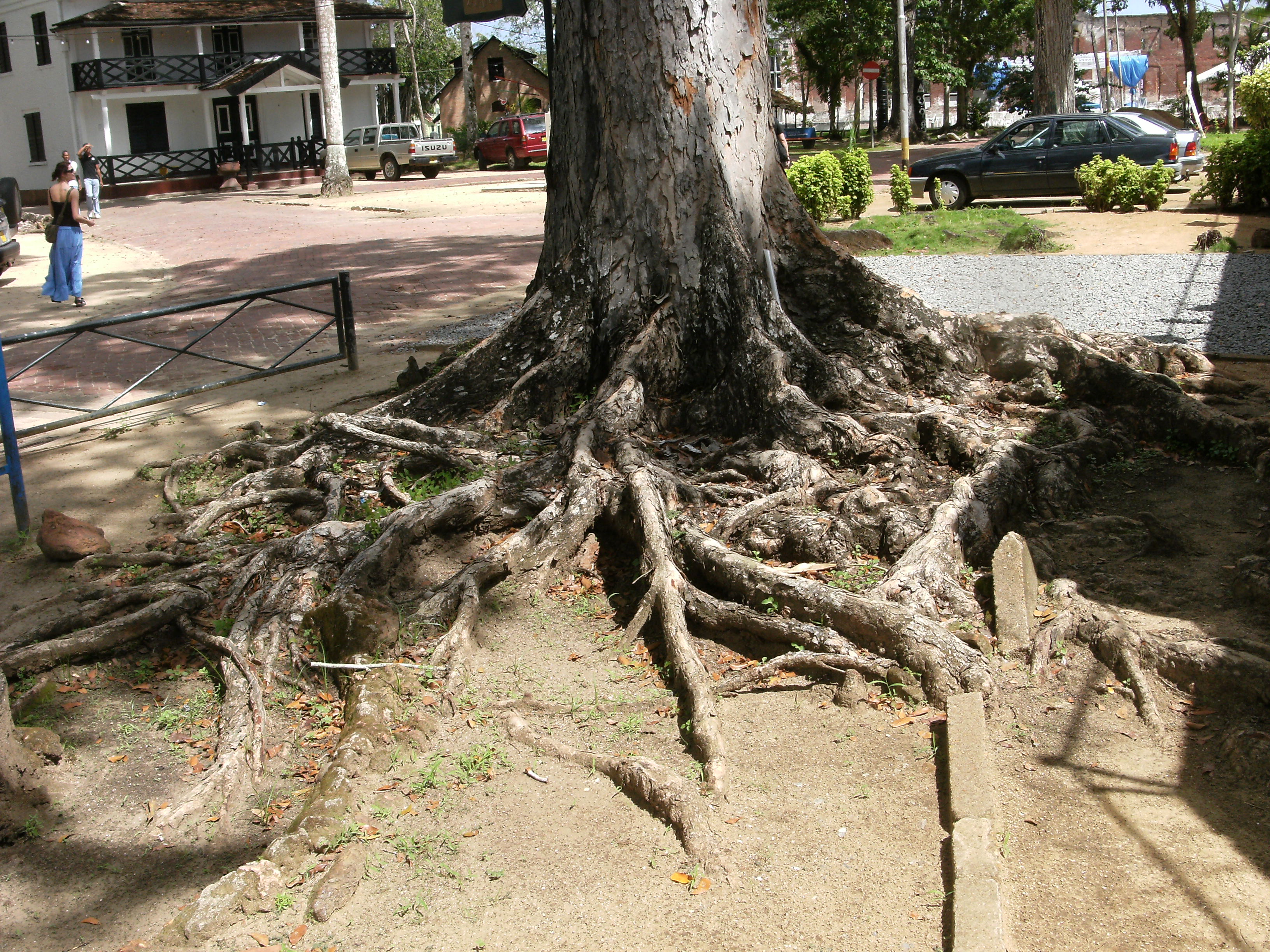 Ft. Zeelandia, thereabouts, roots, trees.